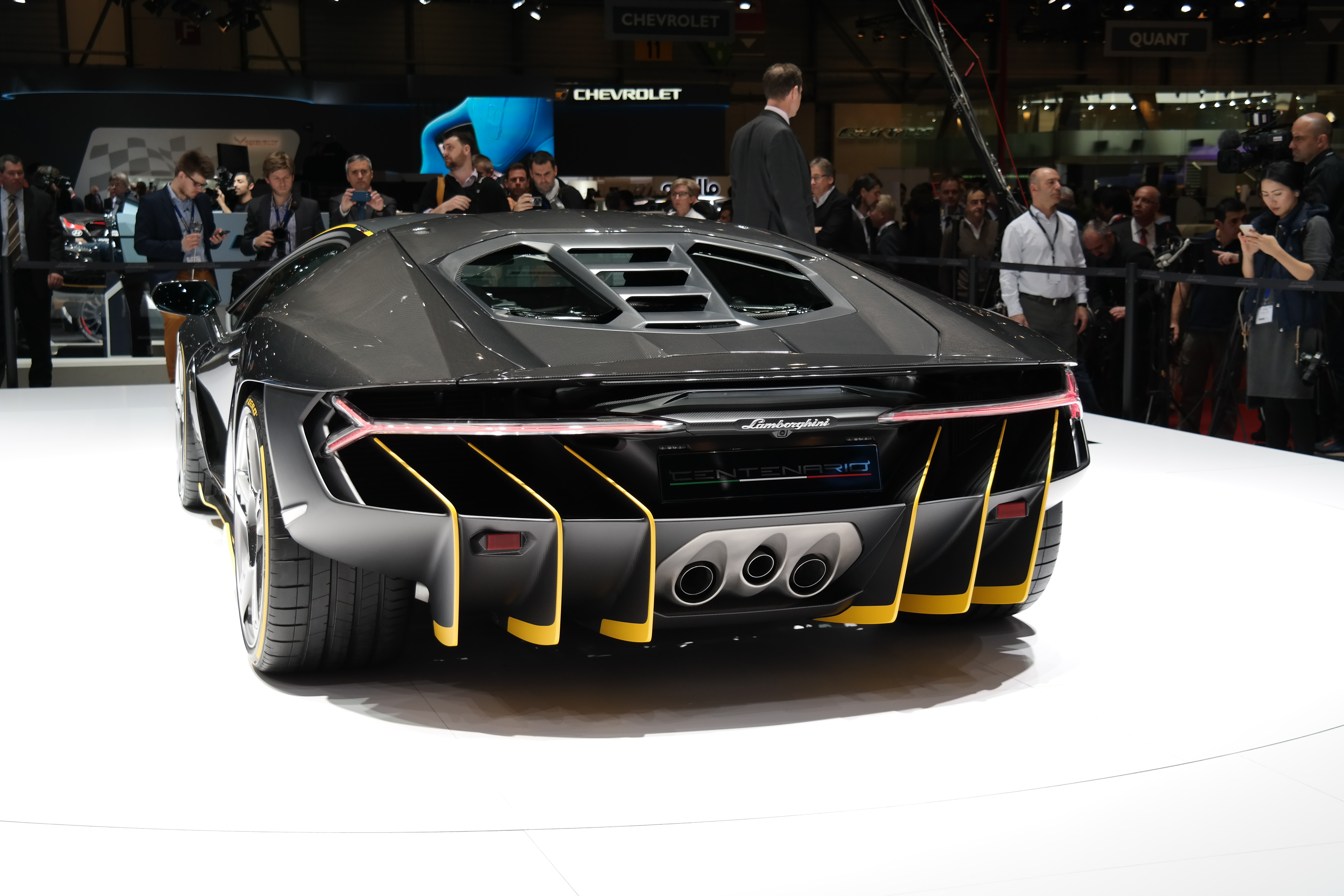 Geneva Motor Show 2016 (photo taken on the first press day)